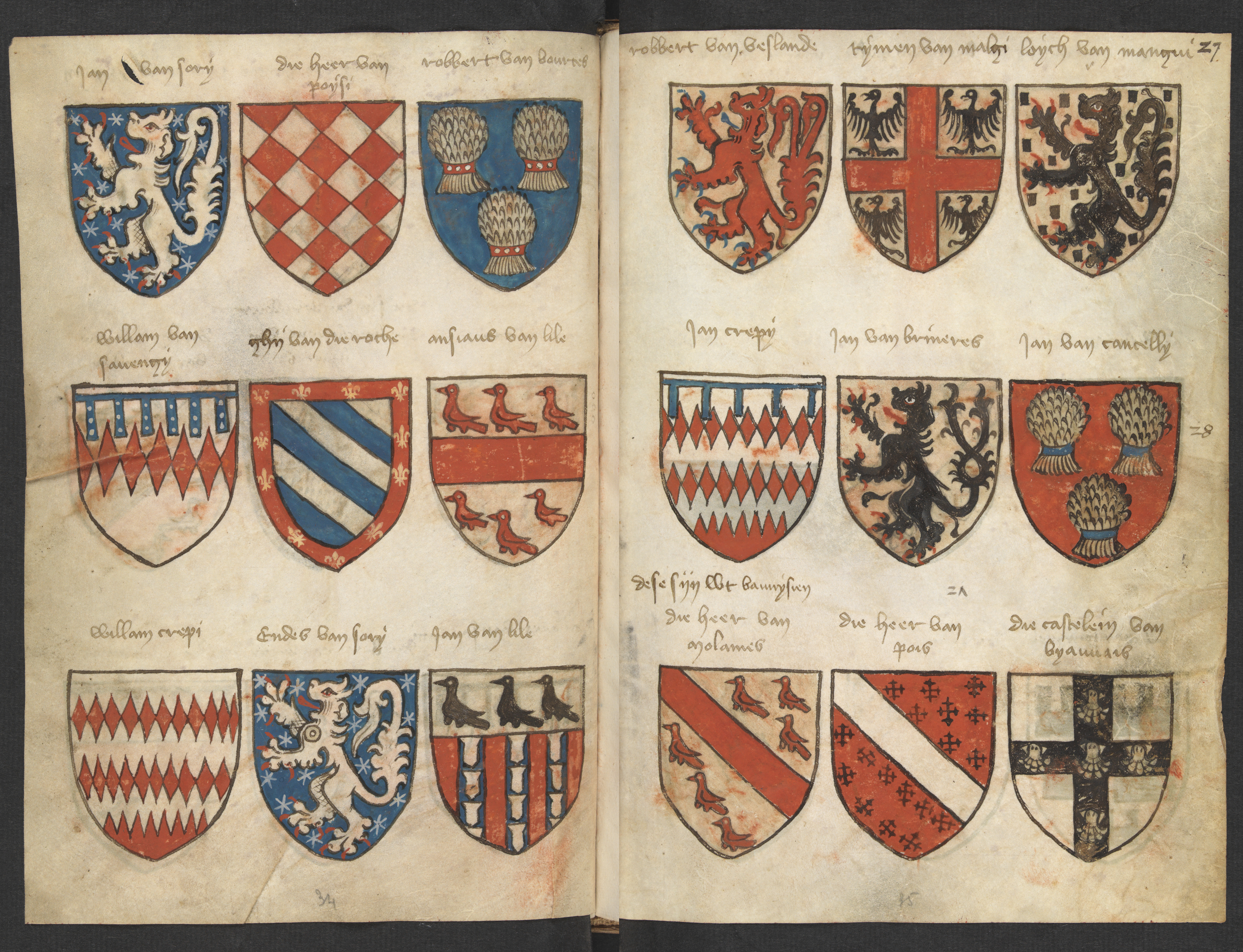 Lefthand side folio 026v; righthand side folio 027r from the Beyeren armorial / Wapenboek Beyeren